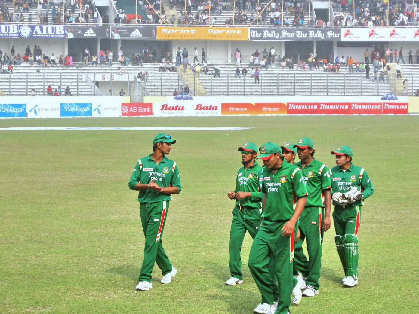 Bangladeshi players returning to dressing room at Sher-e-Bangla Cricket Stadium, Dhaka.